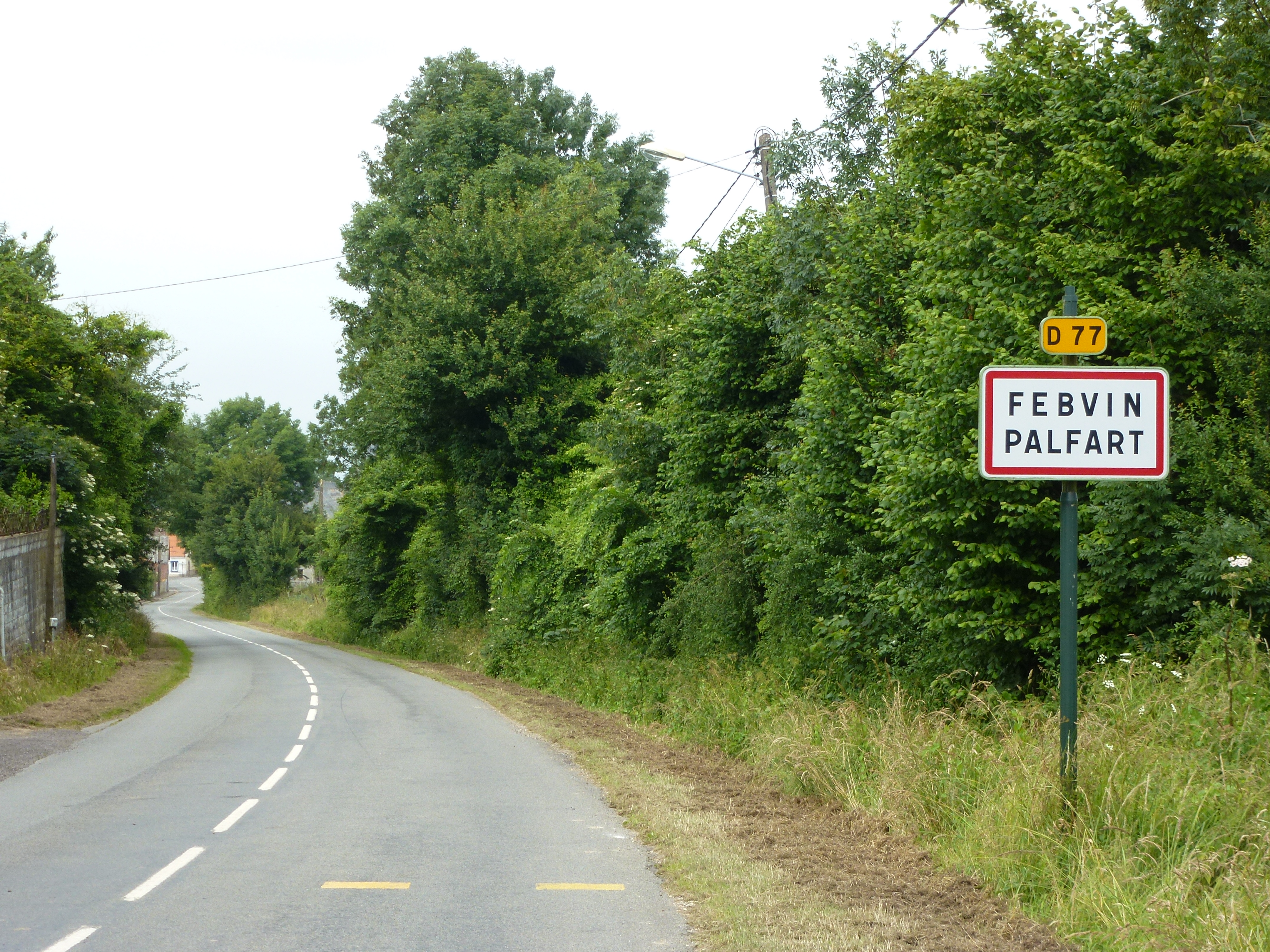 Febvin-Palfart (Pas-de-Calais) city limit sign